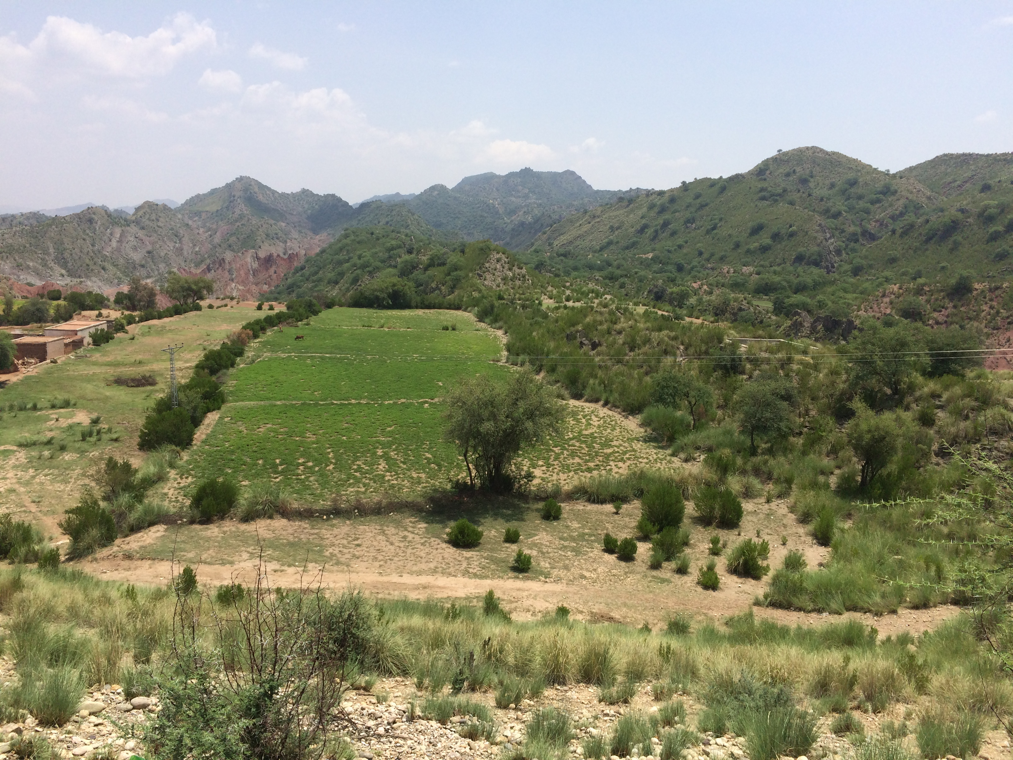 Speena, Karak KPK Pakistan